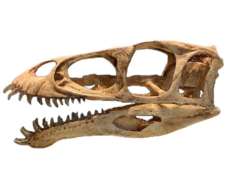 Masiakasaurus skull cast on display at the Field Museum of Natural History, Chicago, IL